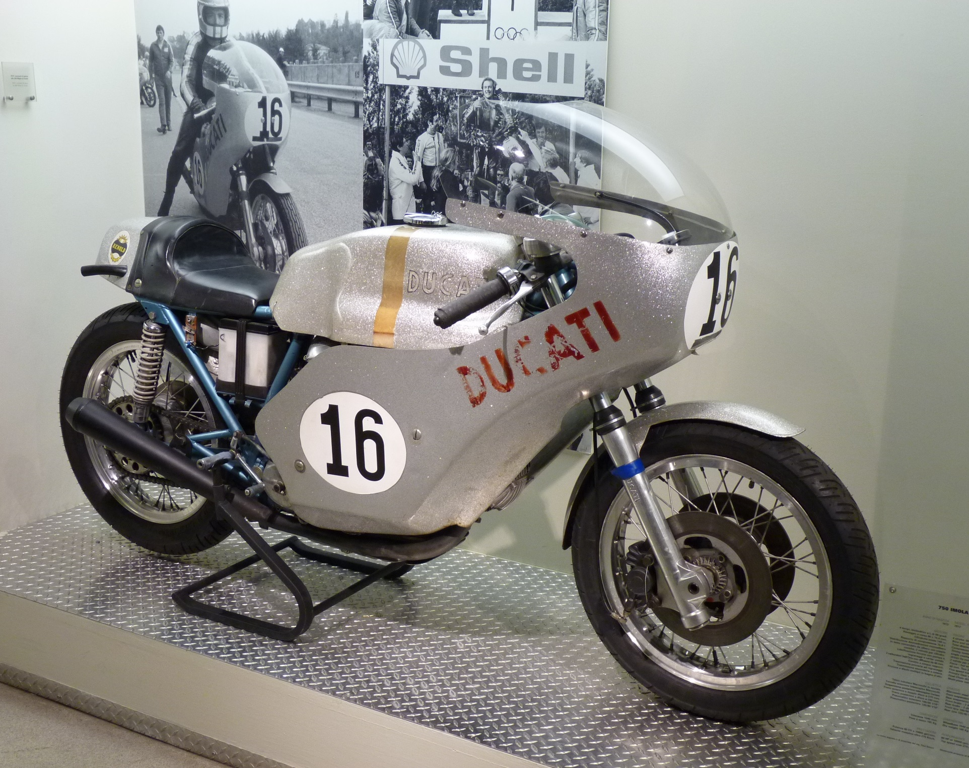 Paul Smart's Ducati 750 Imola Desmo racing bike. On this bike the British rider achieved his most renowned victory (and one of the most renowned victories for the Ducati too), the Imola 200 km race in 1972. Bologna, Museo Ducati.